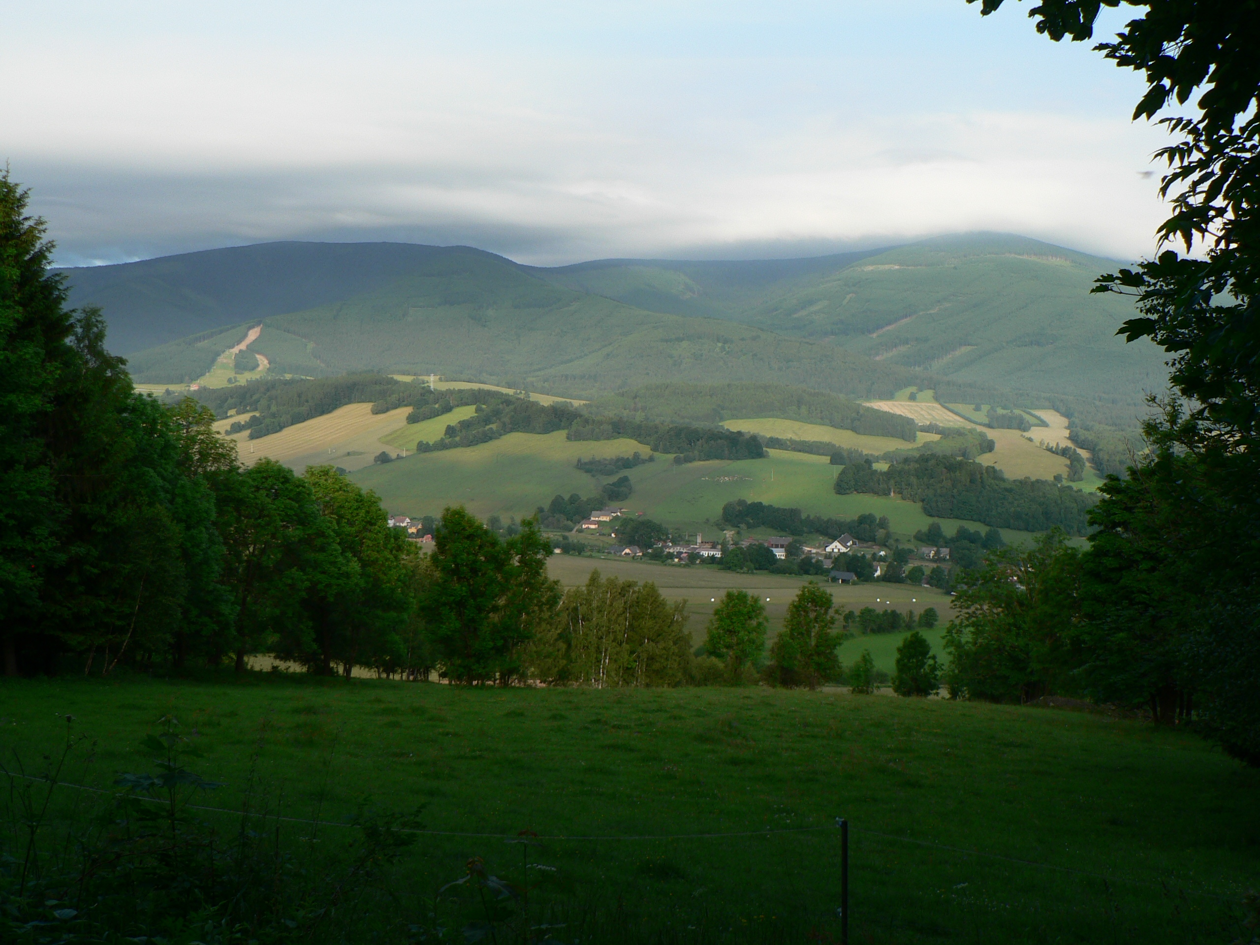 Bela river valley from east.